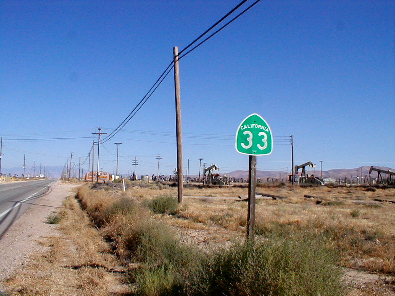 Looking south along CA 33 in Kern County, near the fields of oil derricks. Photo taken 2003 by Glenn Pillsbury.